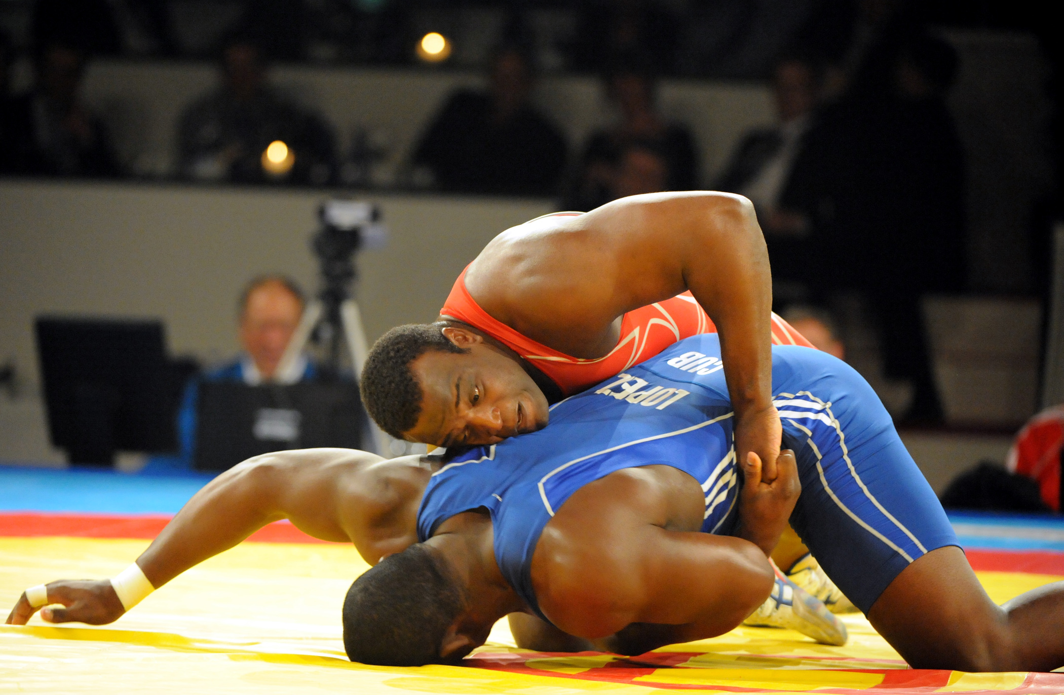 Sgt. 1st Class Dremiel Byers sets his lock against Cuba's Mijain Lopez during the Greco-Roman 120-kilogram/264.5-pound finale of the 2009 World Wrestling Championships in Herning, Denmark, Sept. 27. Lopez won the match with a pin in the second period and Byers took the silver medal.